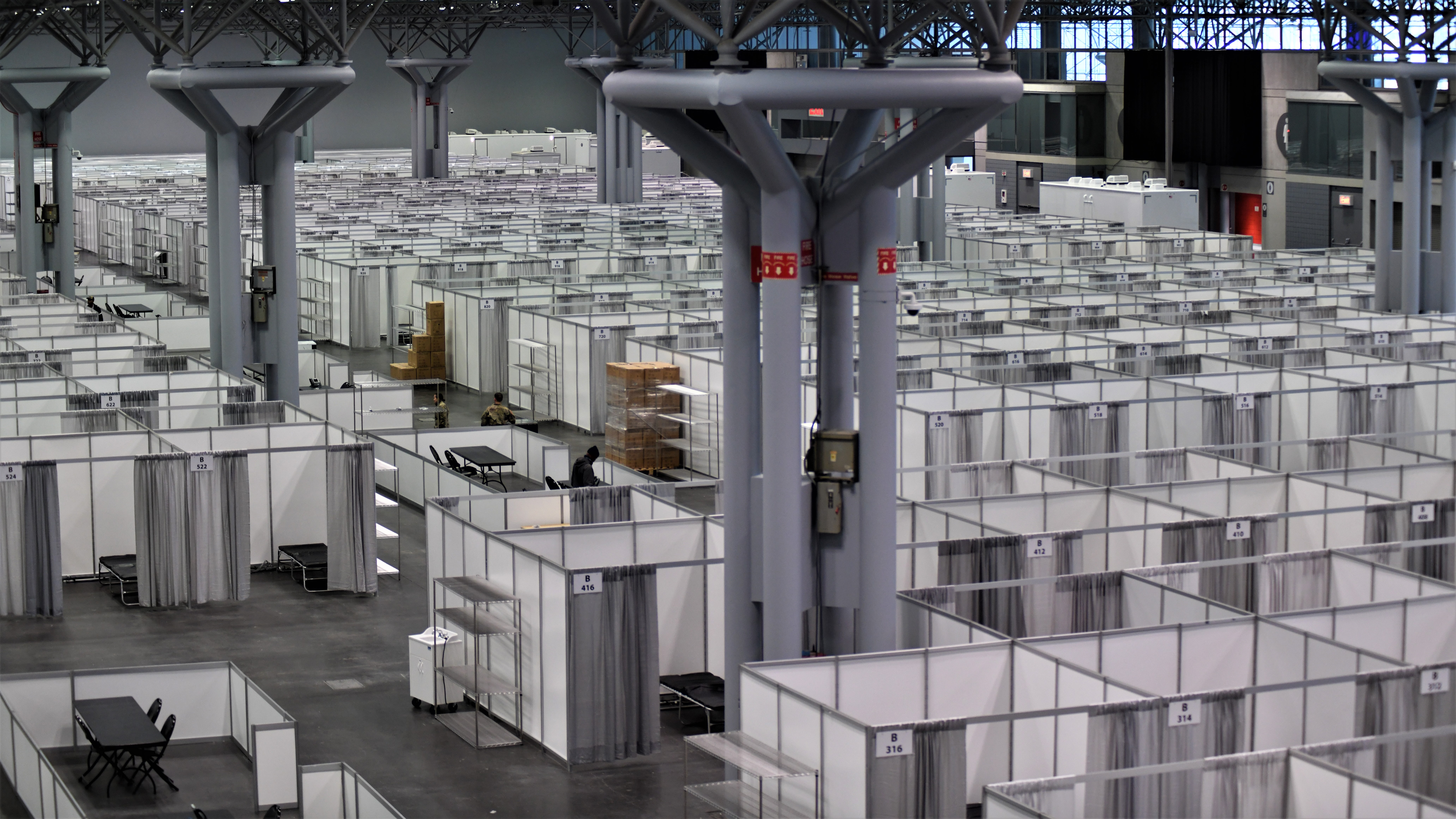 Military members install the rest of the support elements; beds, signage, bedding, and shelves to hold the medical supplies and equipment to treat patients at the Jacob K. Javits Convention Center in New York City, April 3, 2020. When complete, the Javits Center will have an additional 2,000 beds, of which 48 beds are for intensive care (ICU). The convention center is part of New York’s multi-agency response effort to combat COVID-19. (U.S. Air National Guard photo by Major Patrick Cordova)